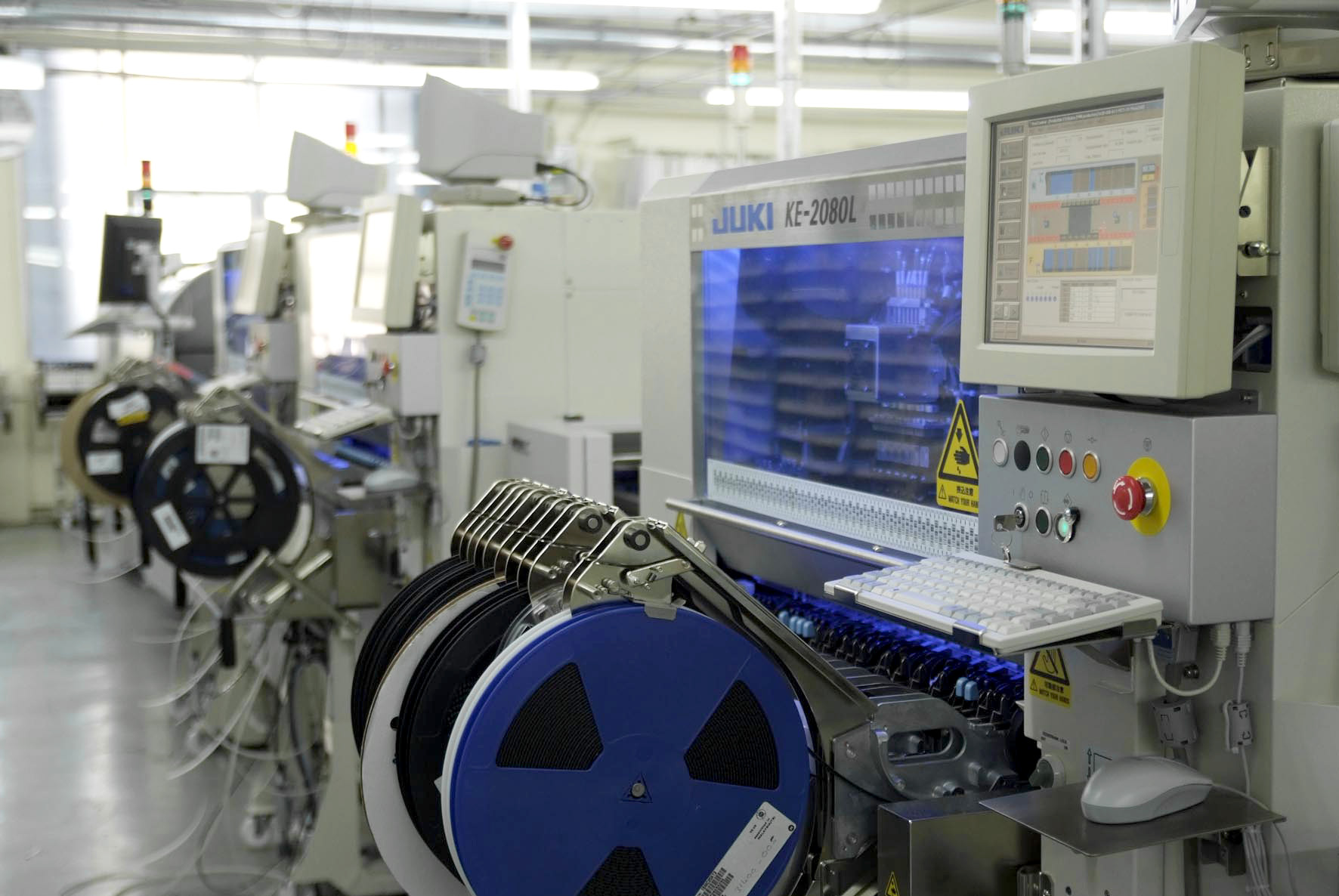 SMT placement machine Juki KE-2080L at Megger's Dover site.